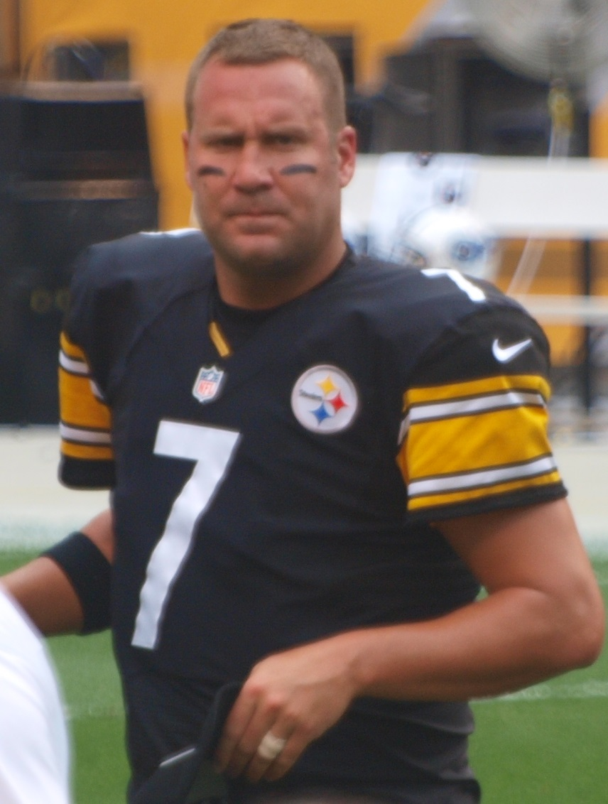 Ben Roethlisberger vs. Tennessee Titans in September 2013